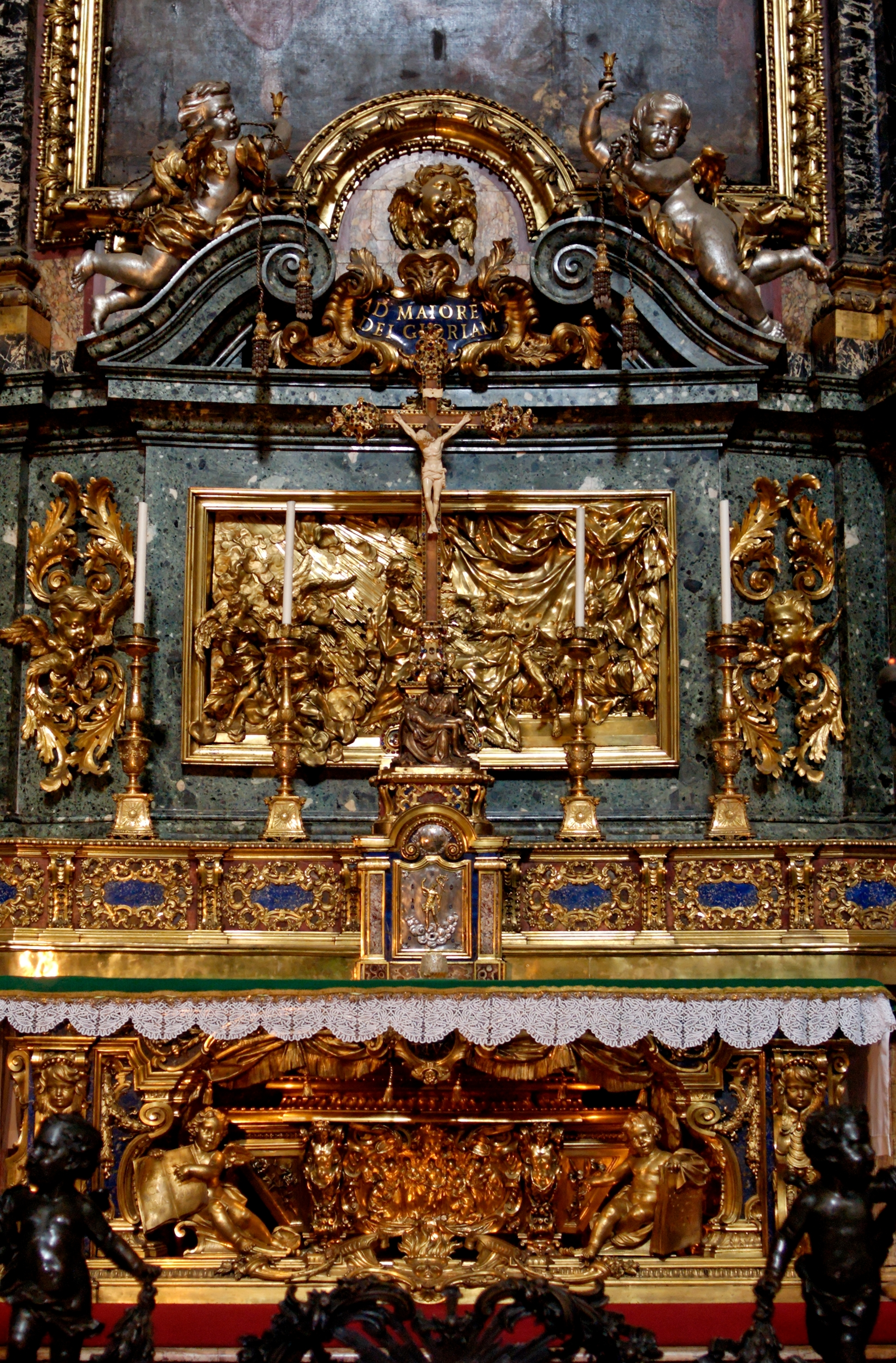 Detail from the altar of St. Ignatius, by Andrea Pozzo (Italian, 1642–1709). Church of the Gesù, Rome, Italy.